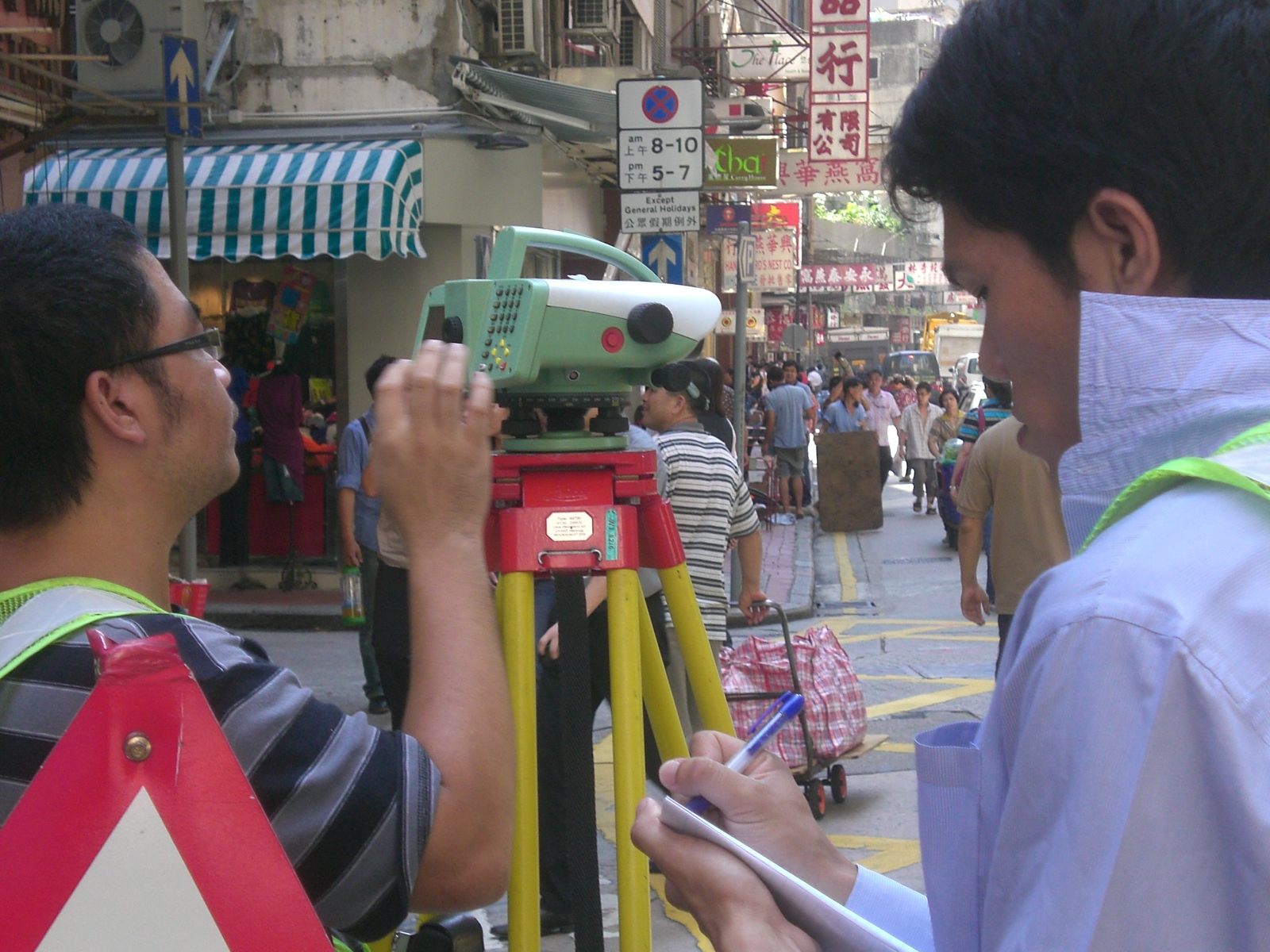 Levelling with a Leica DNA03, possibly in Hong Kong, China.